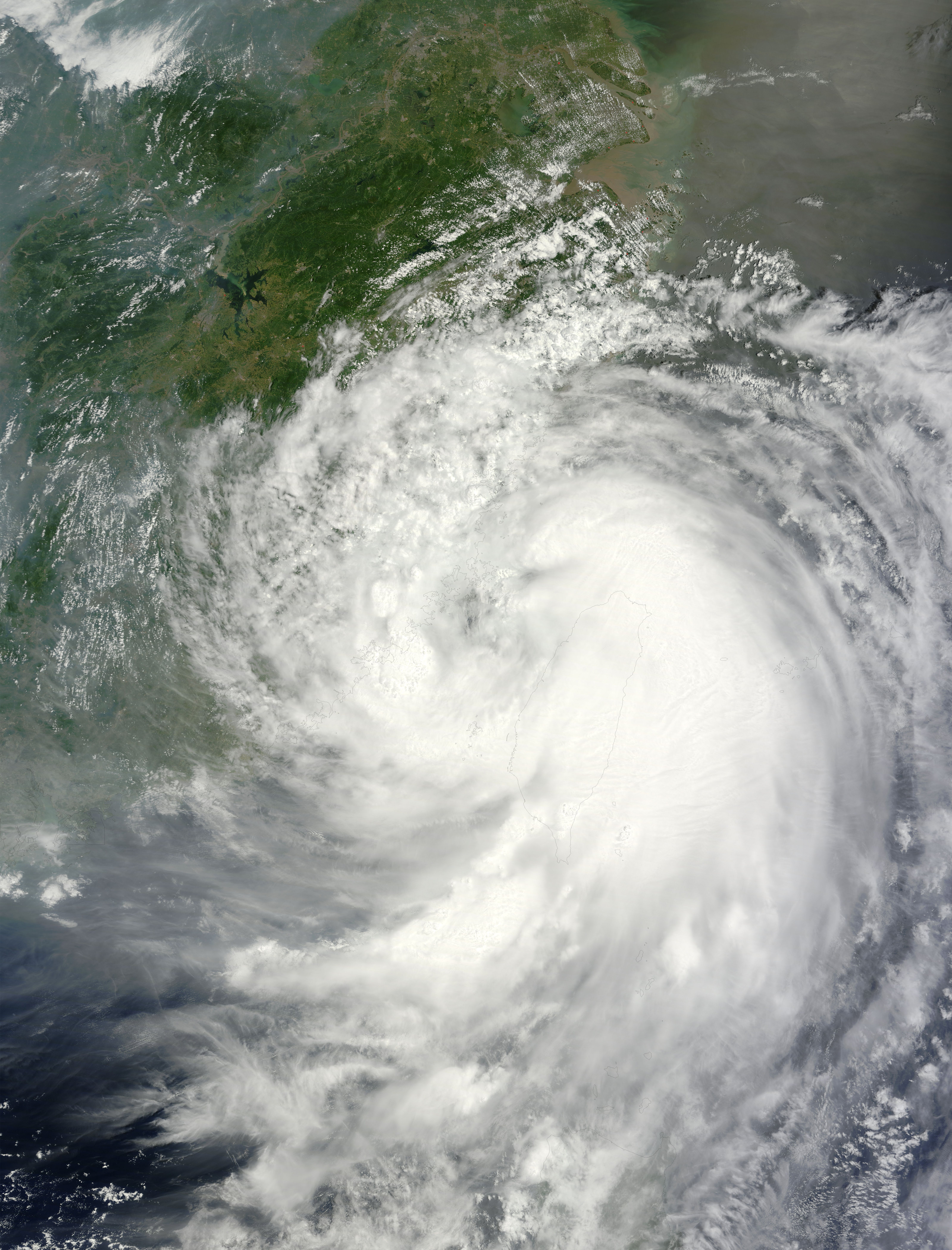 Typhoon Matmo (10W) over Taiwan and China on July 23,2014